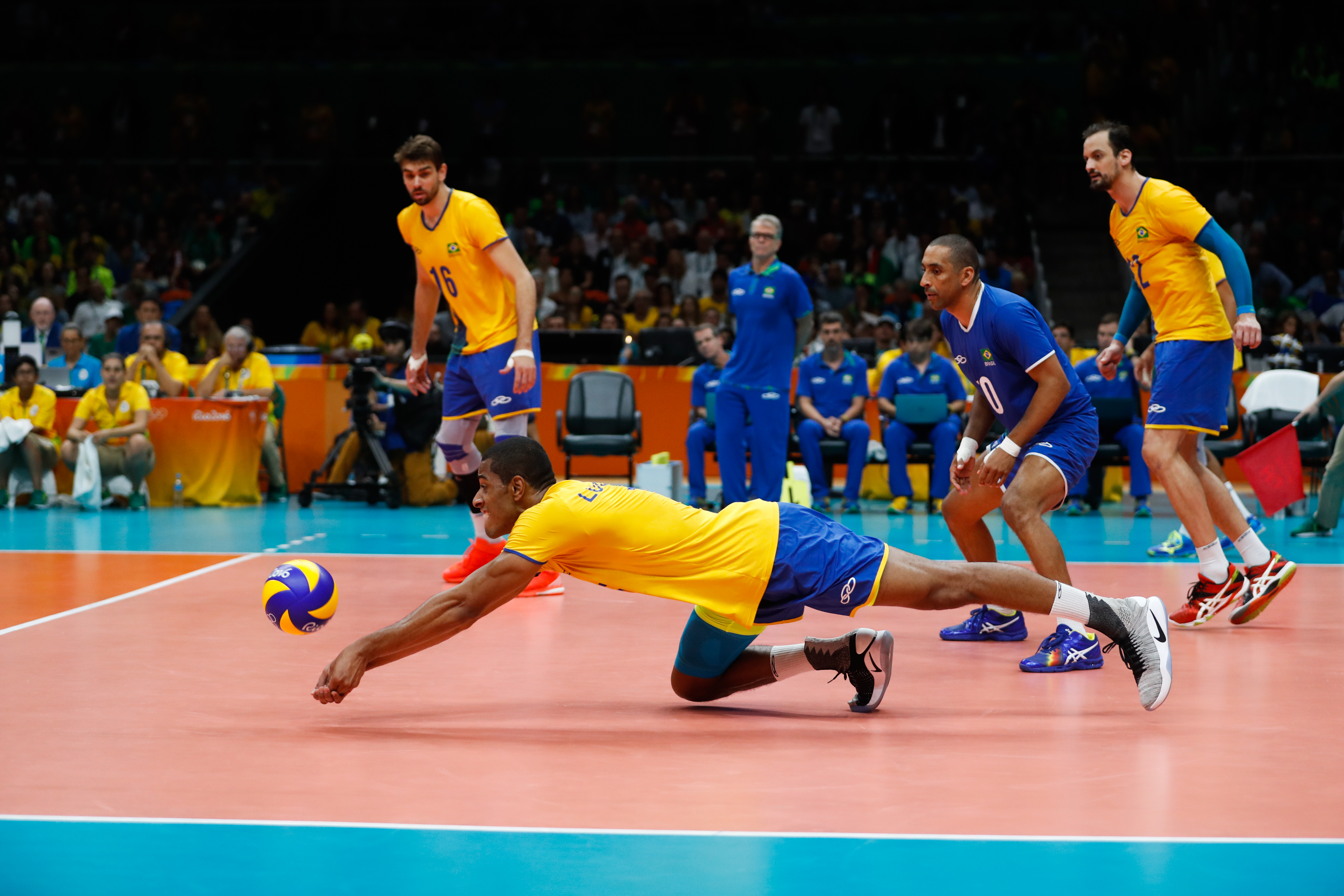 Rio de Janeiro - Seleção brasileira de vôlei disputa contra a Itália a final dos Jogos Olímpicos Rio 2016 no Maracanãzinho(Fernando Frazão/Agência Brasil)